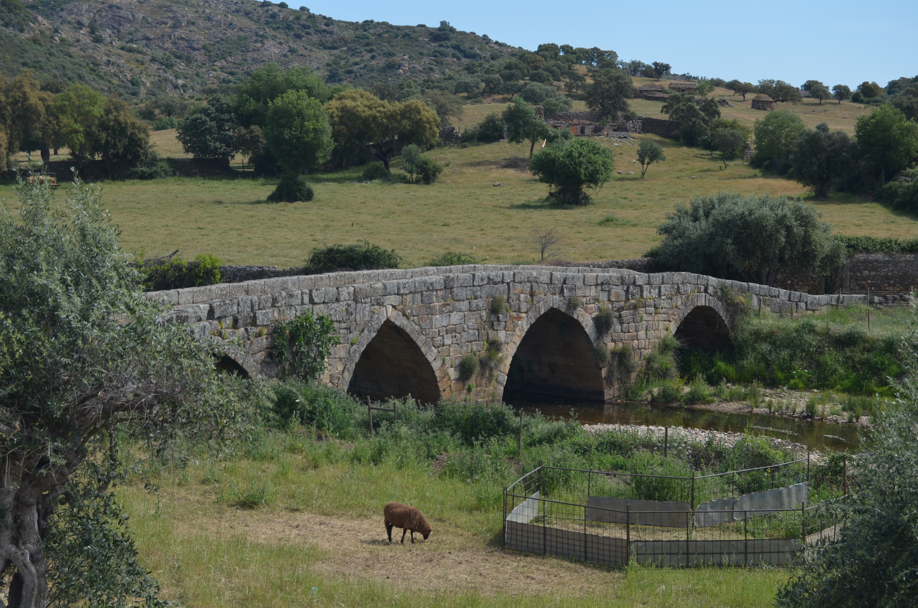 Crossing ages